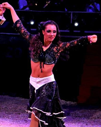 Merrylu Casselly at the Hungarian National Circus.